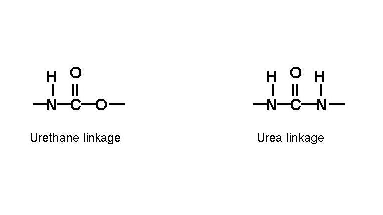 Ureathane linkages